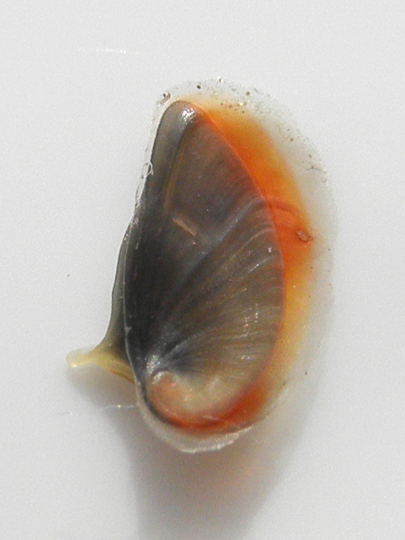 Photo of an outer side of an operculum of Theodoxus fluviatilis. The length of the operculum is 4 mm and the width of the operculum is 3 mm including the rib.